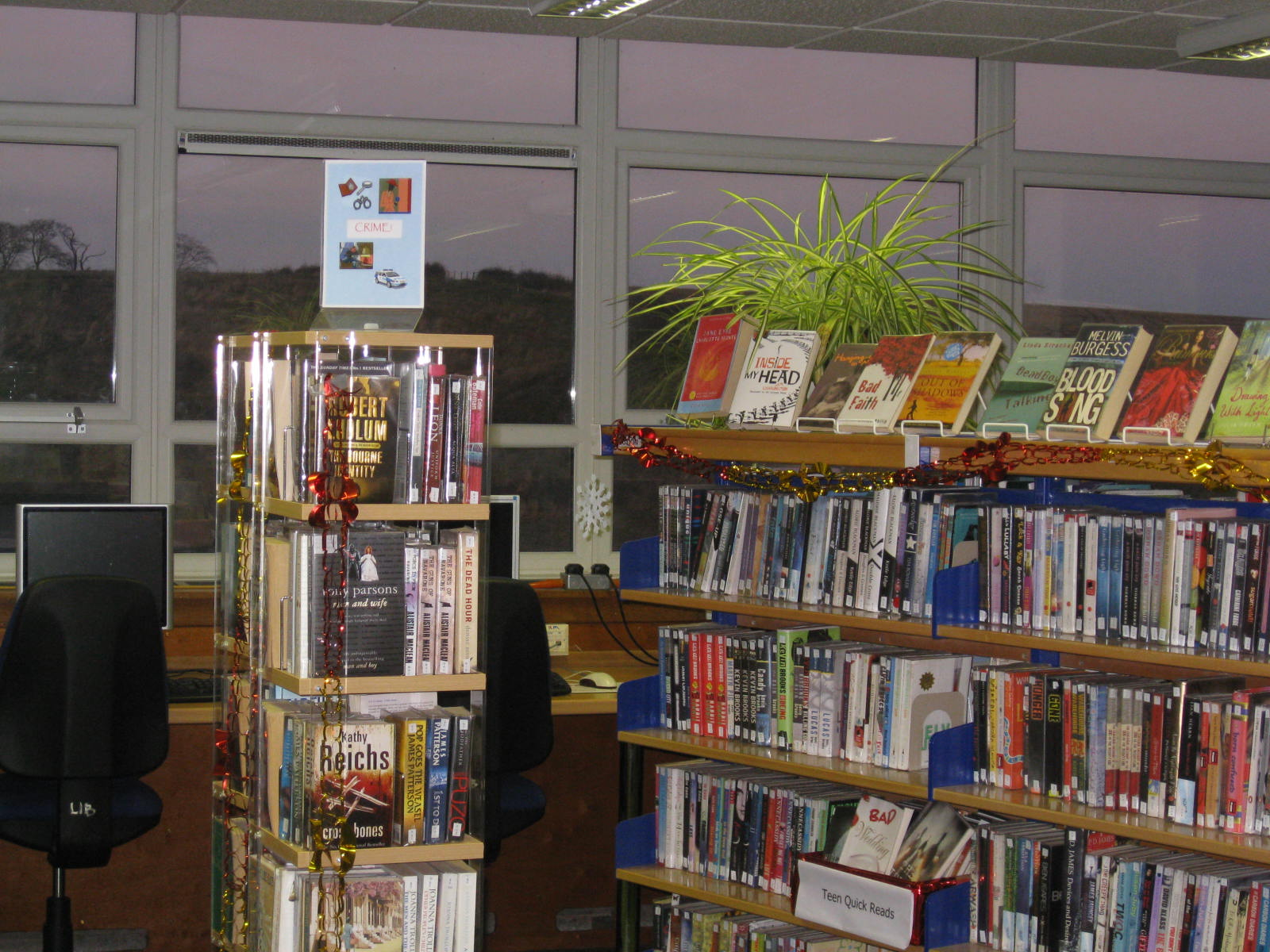 Boclair Library